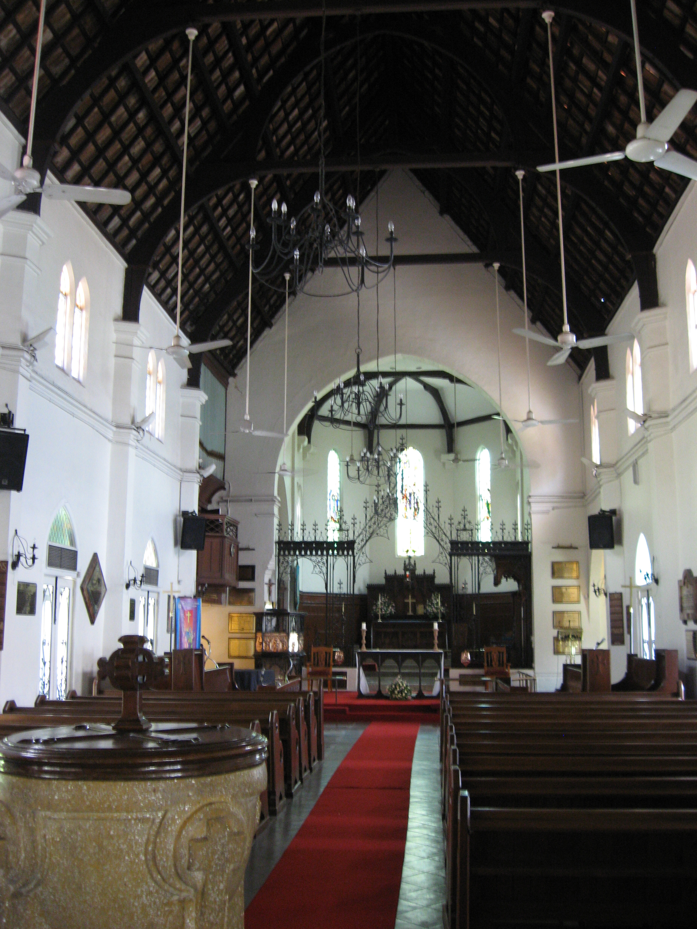 interior of St. Mary's Cathedral, Kuala Lumpur